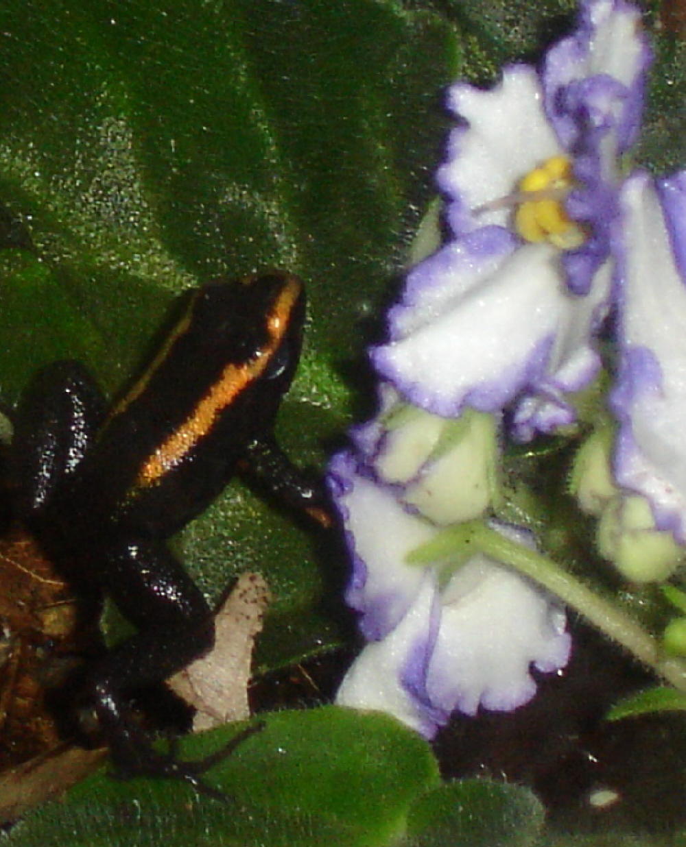 A kokoe dart frog(Phyllobates Aurotaenia)staring at an African violet.